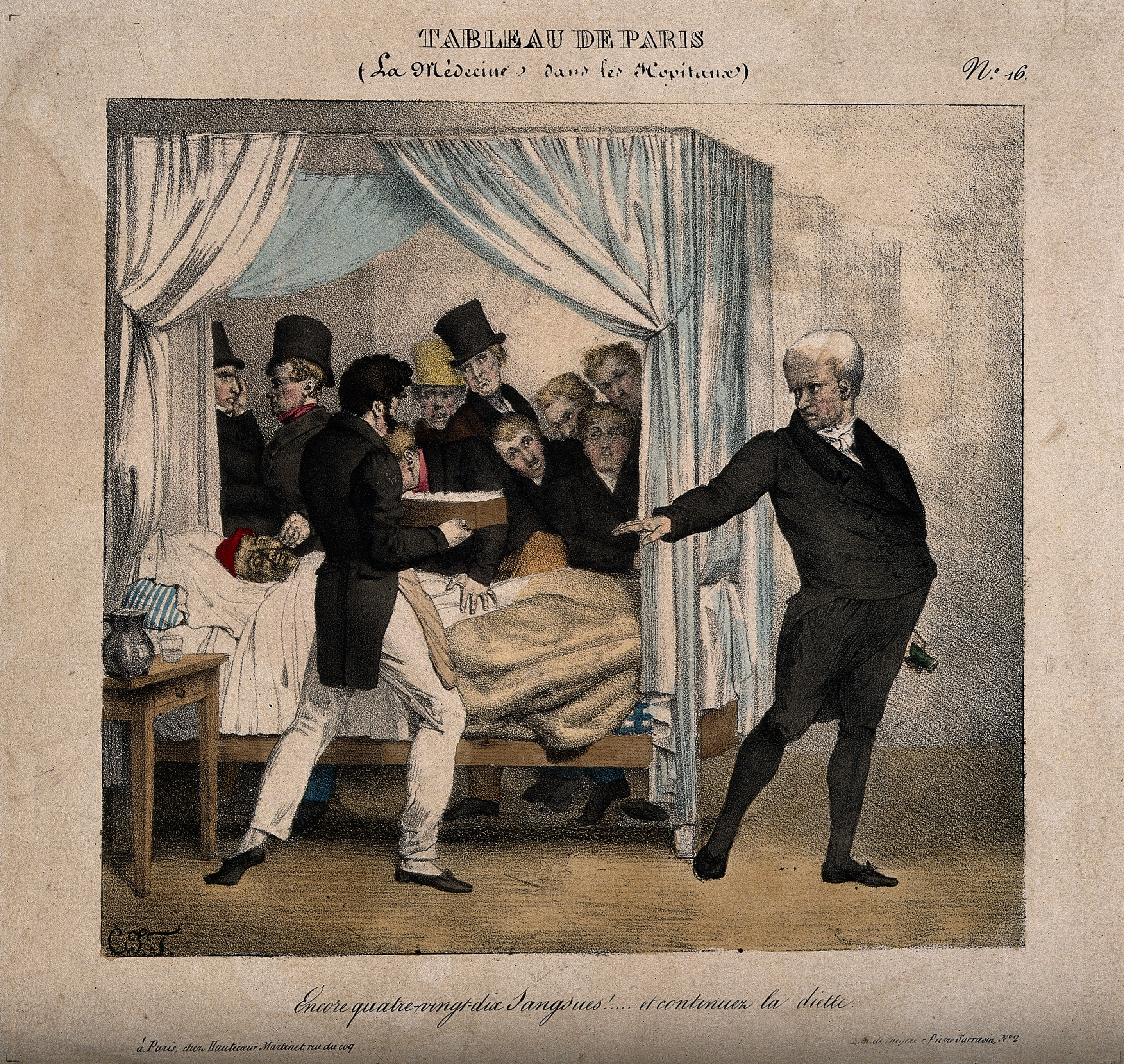 Topic-LCSH: Leeches -- France -- 19th century. Physician and patient. Sick. Diet. Phlebotomy. Genre/Technique: Caricatures. Lithographs.